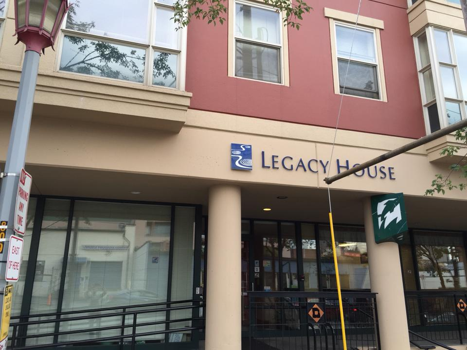 This is the where is the Legacy House at.